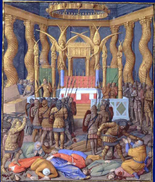 Pompey enters the Jerusalem Temple. Painting by Jean Fouquet, after an event recorded by Flavius Josephus in The Antiquities of the Jews.